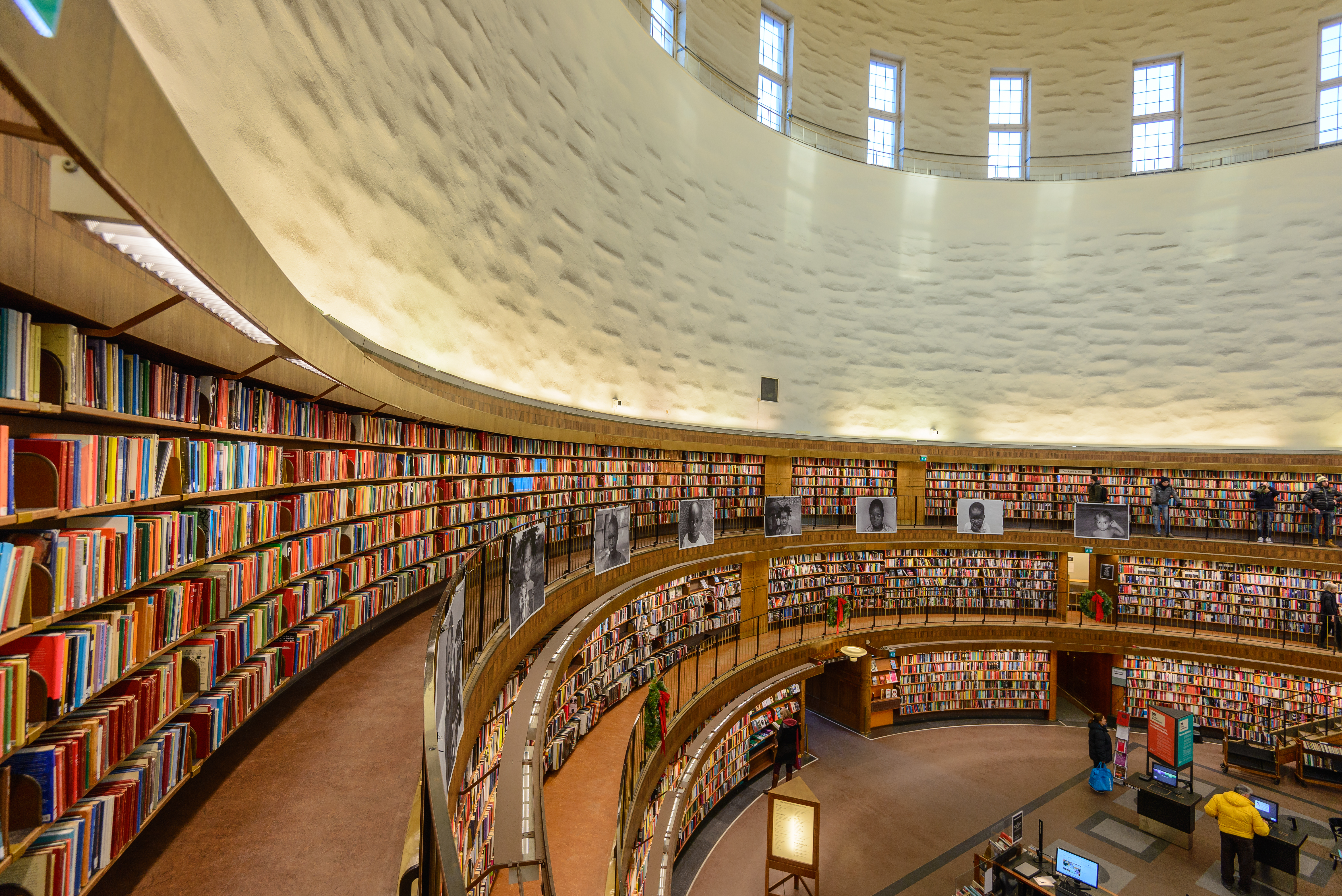 Stockholm Public Library